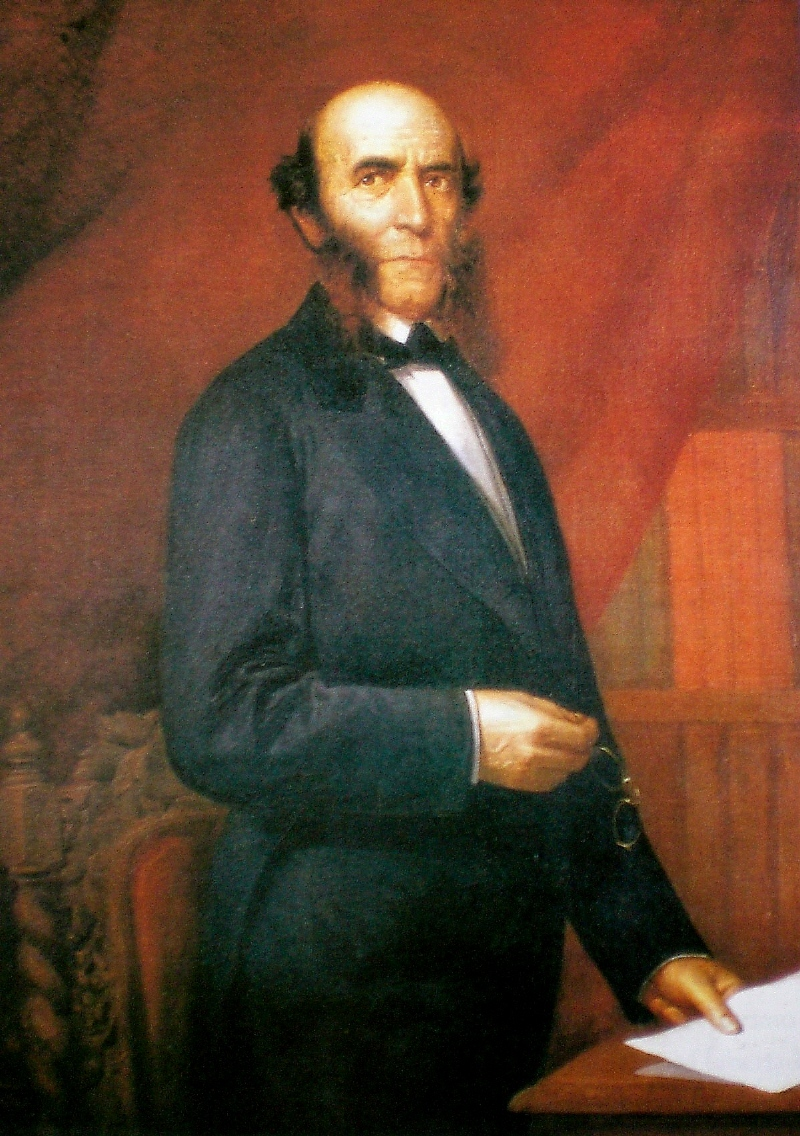 Portrait of Venezuelan politician and Journalist Antonio Leocadio Guzmán (1801-1884).